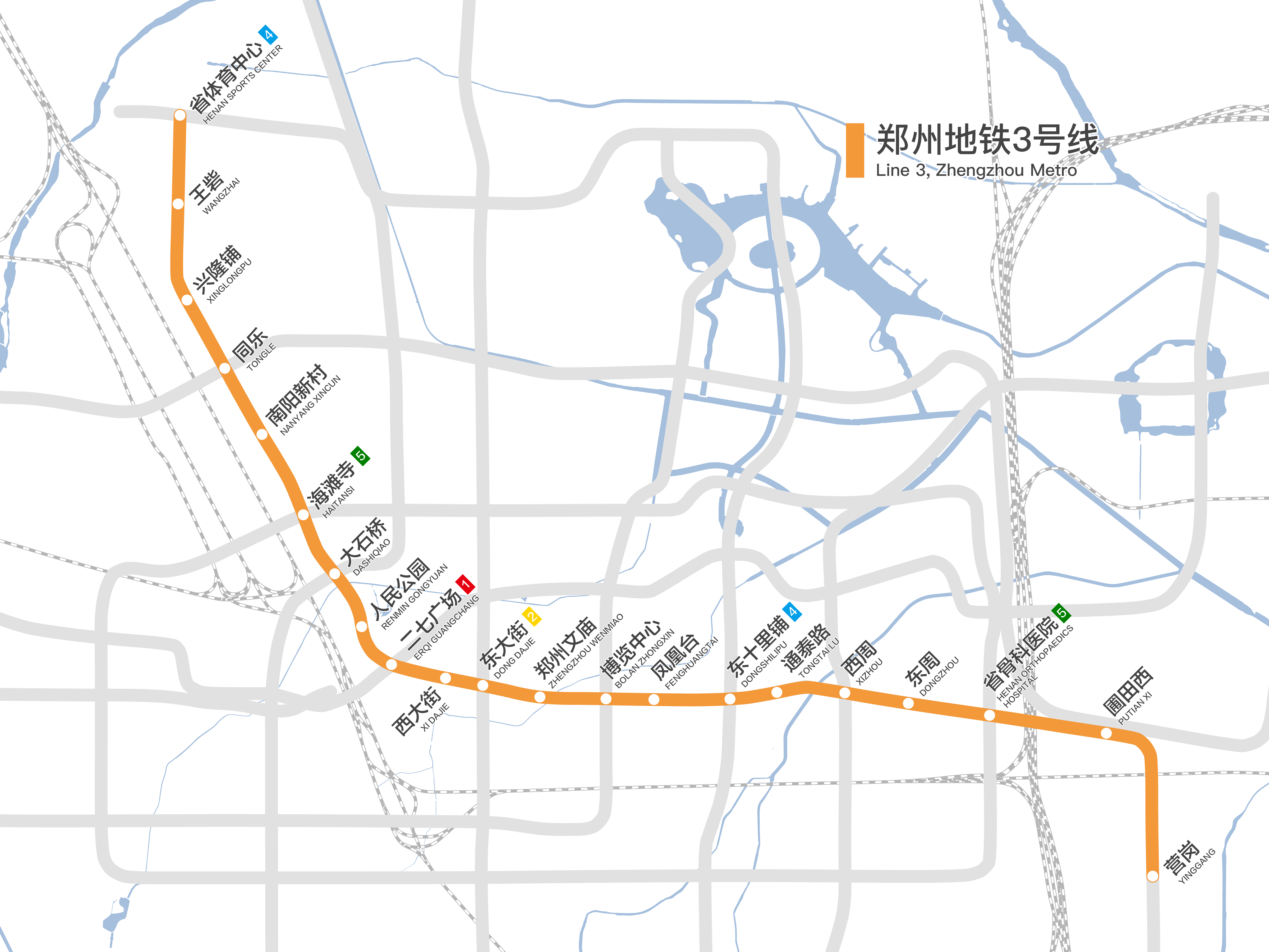 Route Map of Zhengzhou Metro Line 3